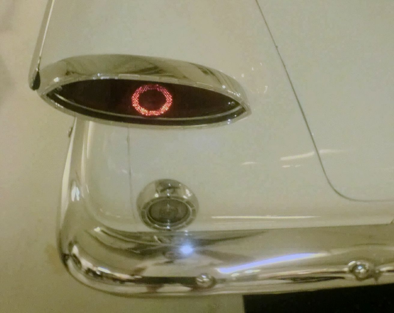 I took this picture at the Walter P. Chrysler Museum in Auburn Hills, MI.